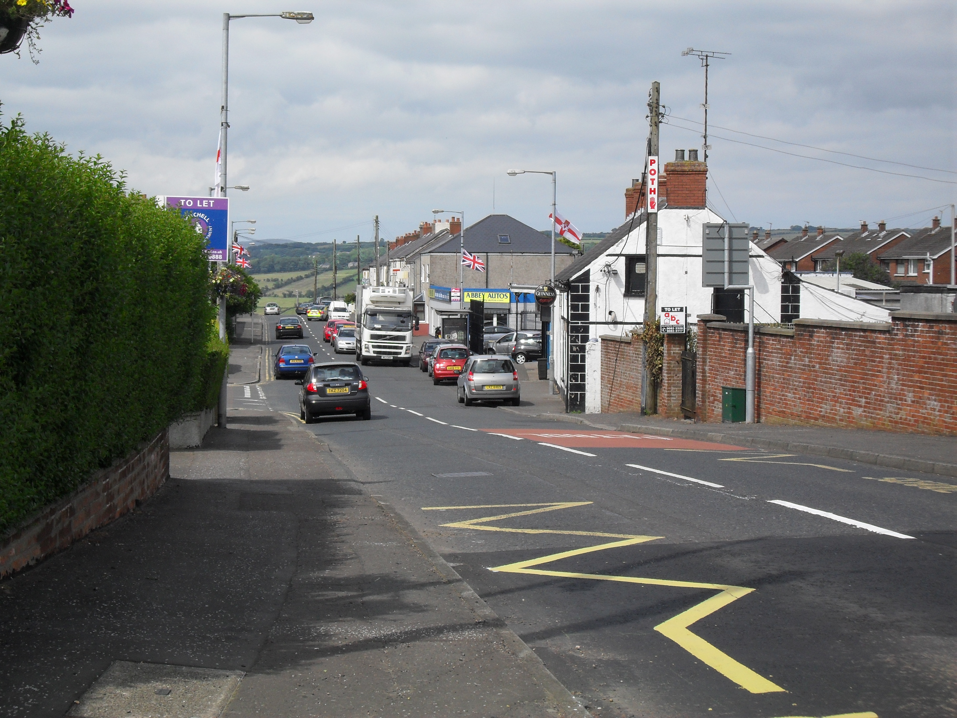 Carnmoney Village (Carnmoney, Newtownabbey, County Antrim)